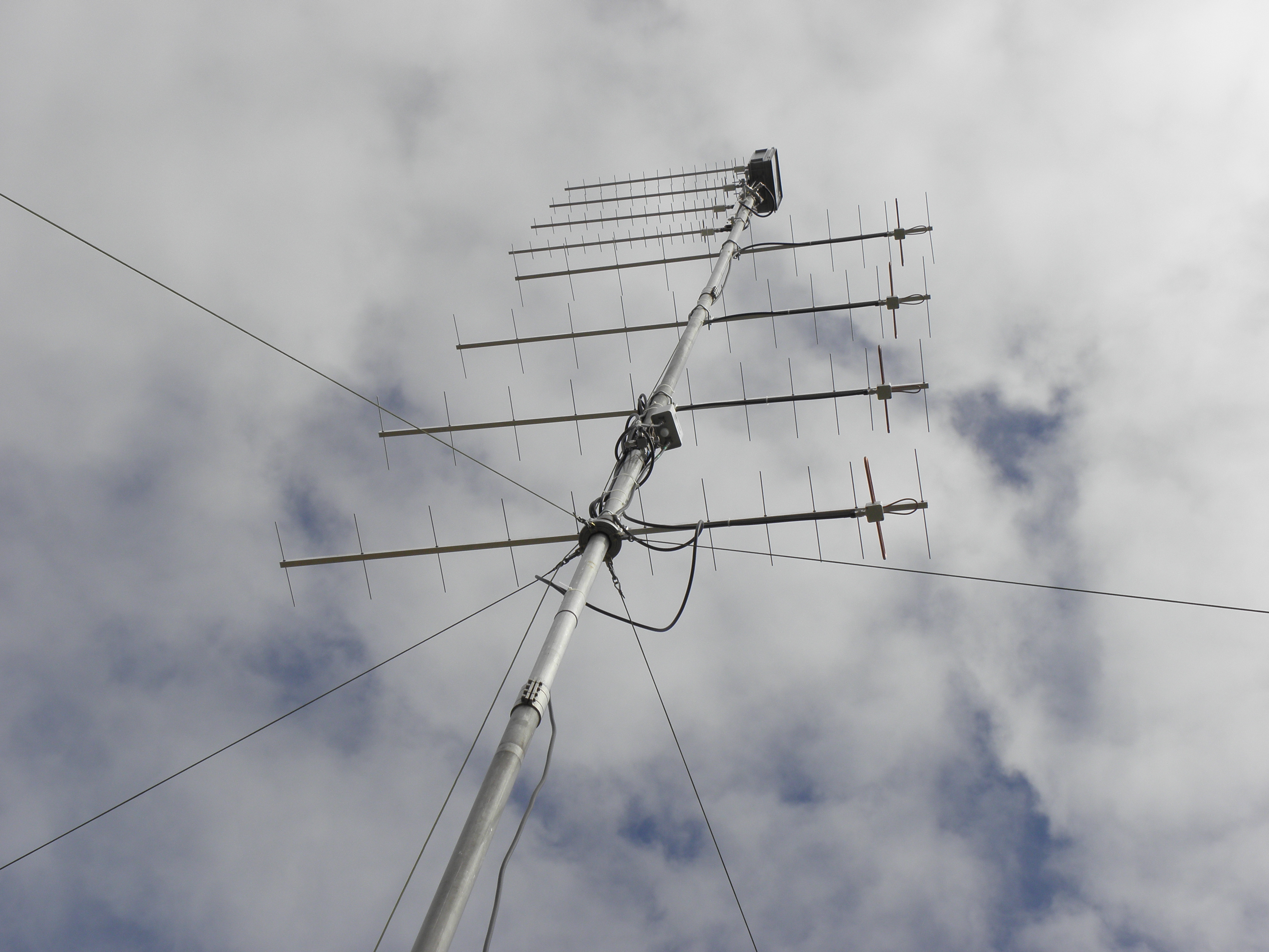 UHF yagi antennas stacking for the ham radio bands of 70 cm and 23 cm